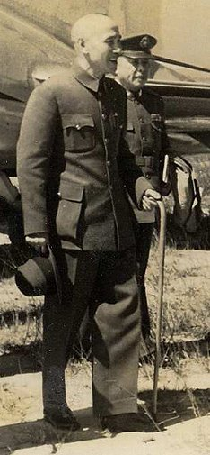 Chiang Kai-shek in a Mao suit